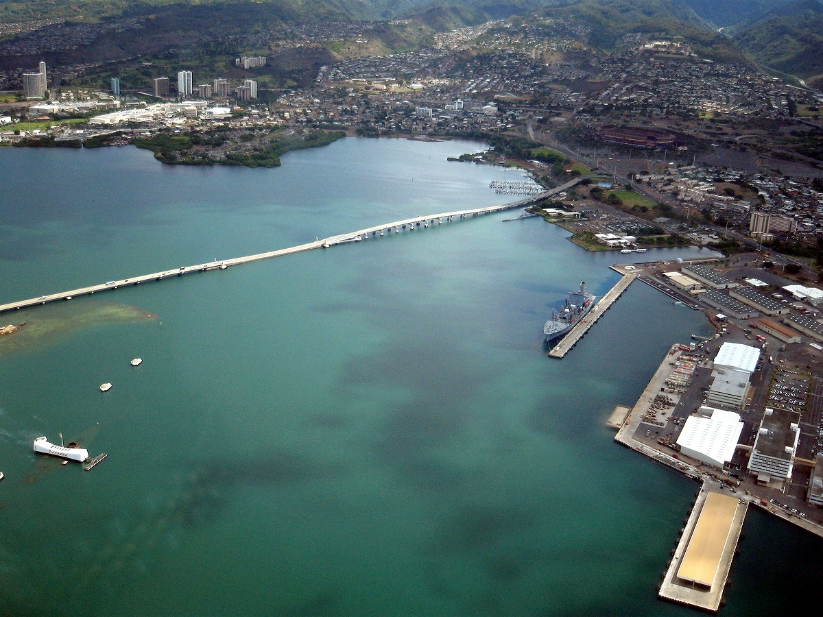 Aerial image looking northward of part of Pearl Harbor showing the USS Arizona (note oil slick), USS Bowfin and museum, Aloha Stadium, Admiral Clarey Bridge, some of the naval facilitates, and O'ahu's terrain. On the Admiral Clarey Bridge to Ford Island, you can see how part of the bridge can be moved under the right span to allow ships to go through.